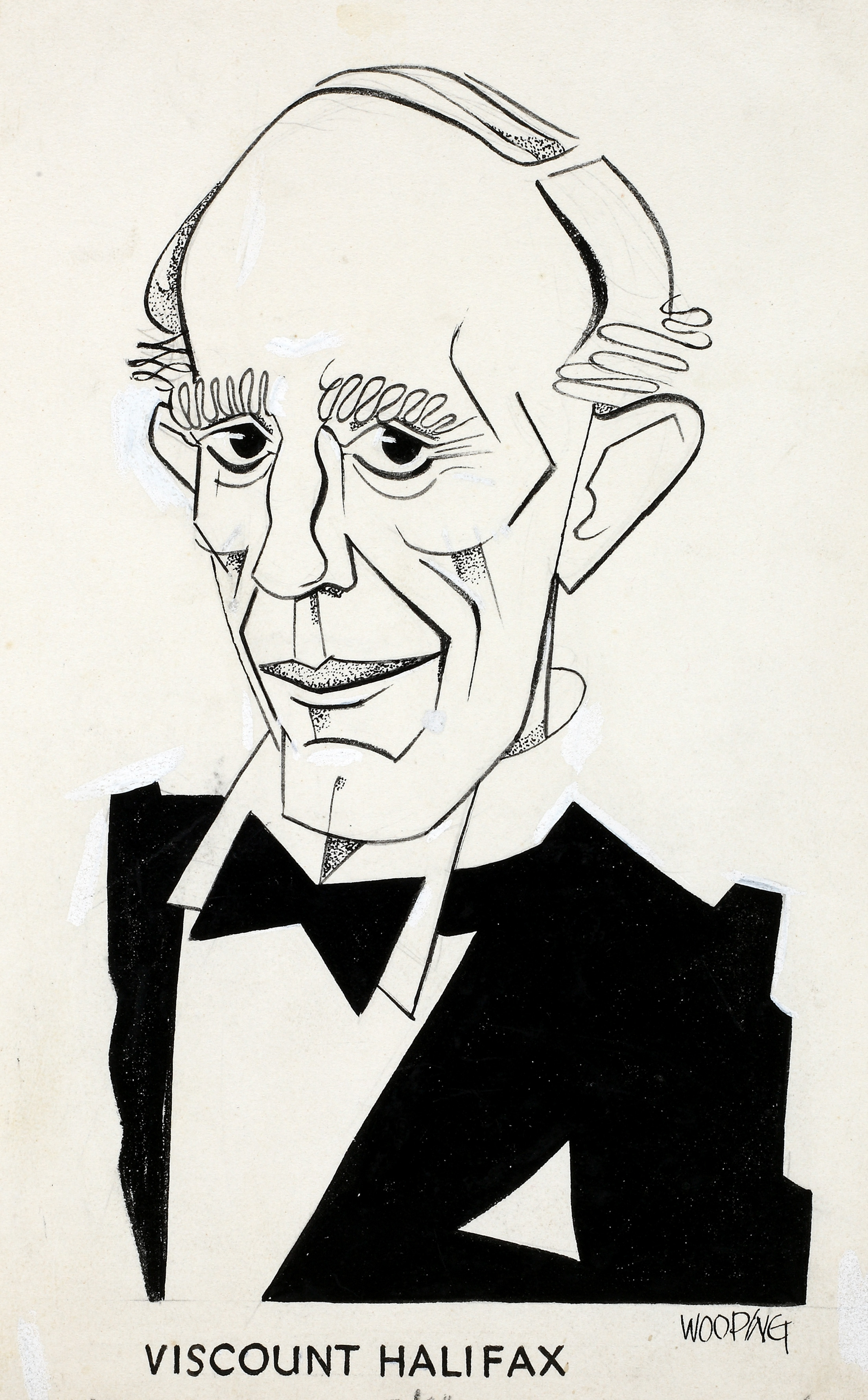 Viscount Halifax Depicted person: E. F. L. Wood, 1st Earl of Halifax